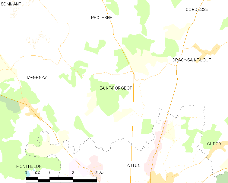 Map of French municipality